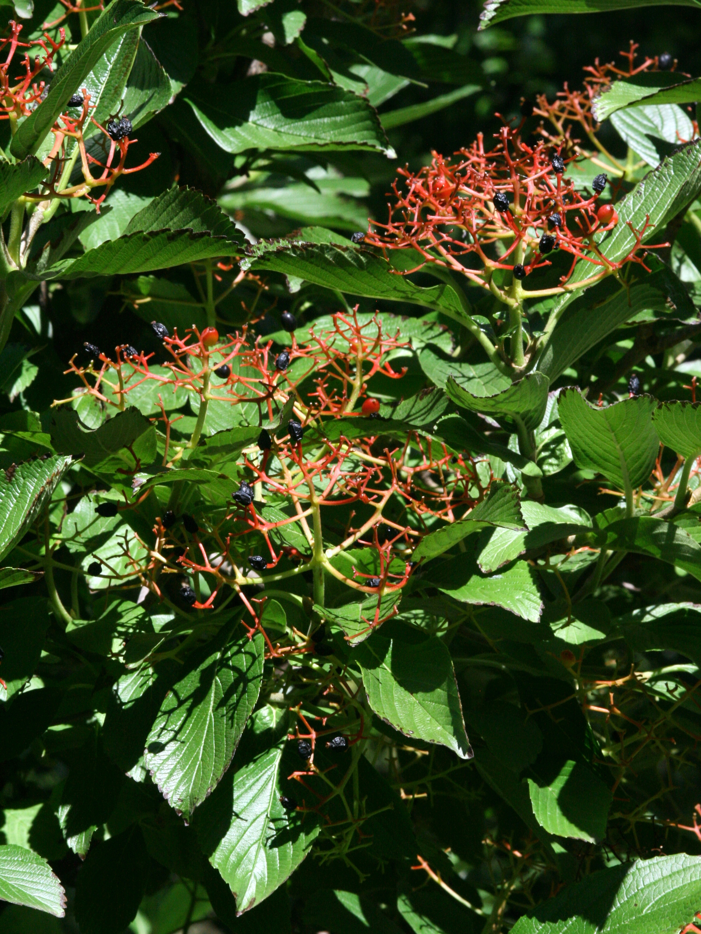 Viburnum sieboldii, Arboretum Brno, Czech Republic